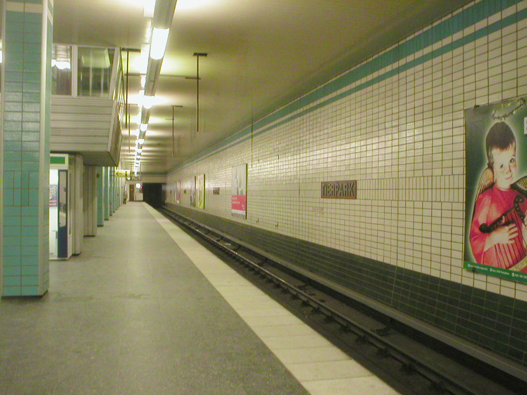 The Berlin underground station Tierpark, line U5